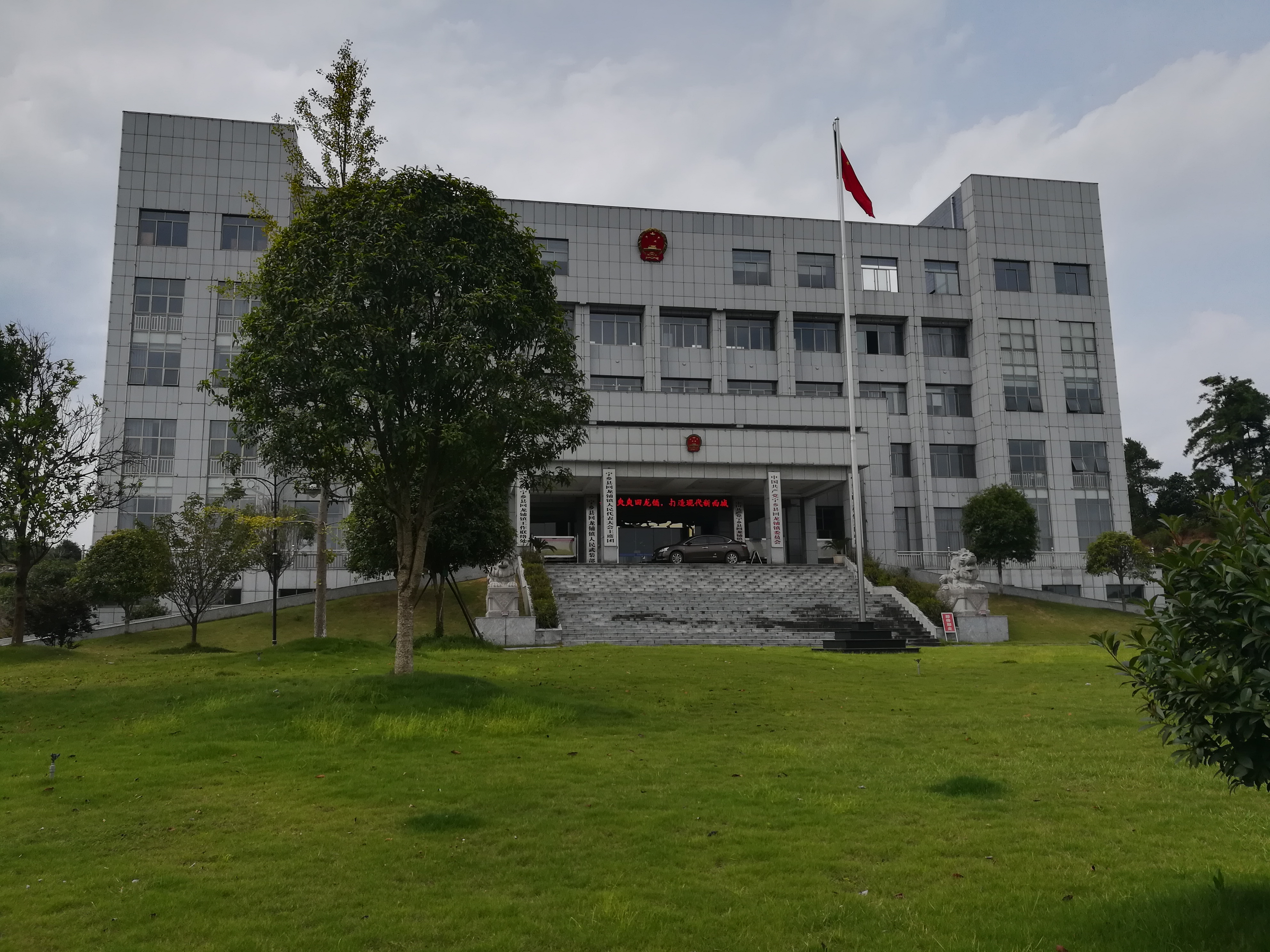 The government building of Huilongpu Town, in Ningxiang, Hunan, China. 中文（中国大陆）: 中国湖南省宁乡市回龙铺镇的政府大楼。